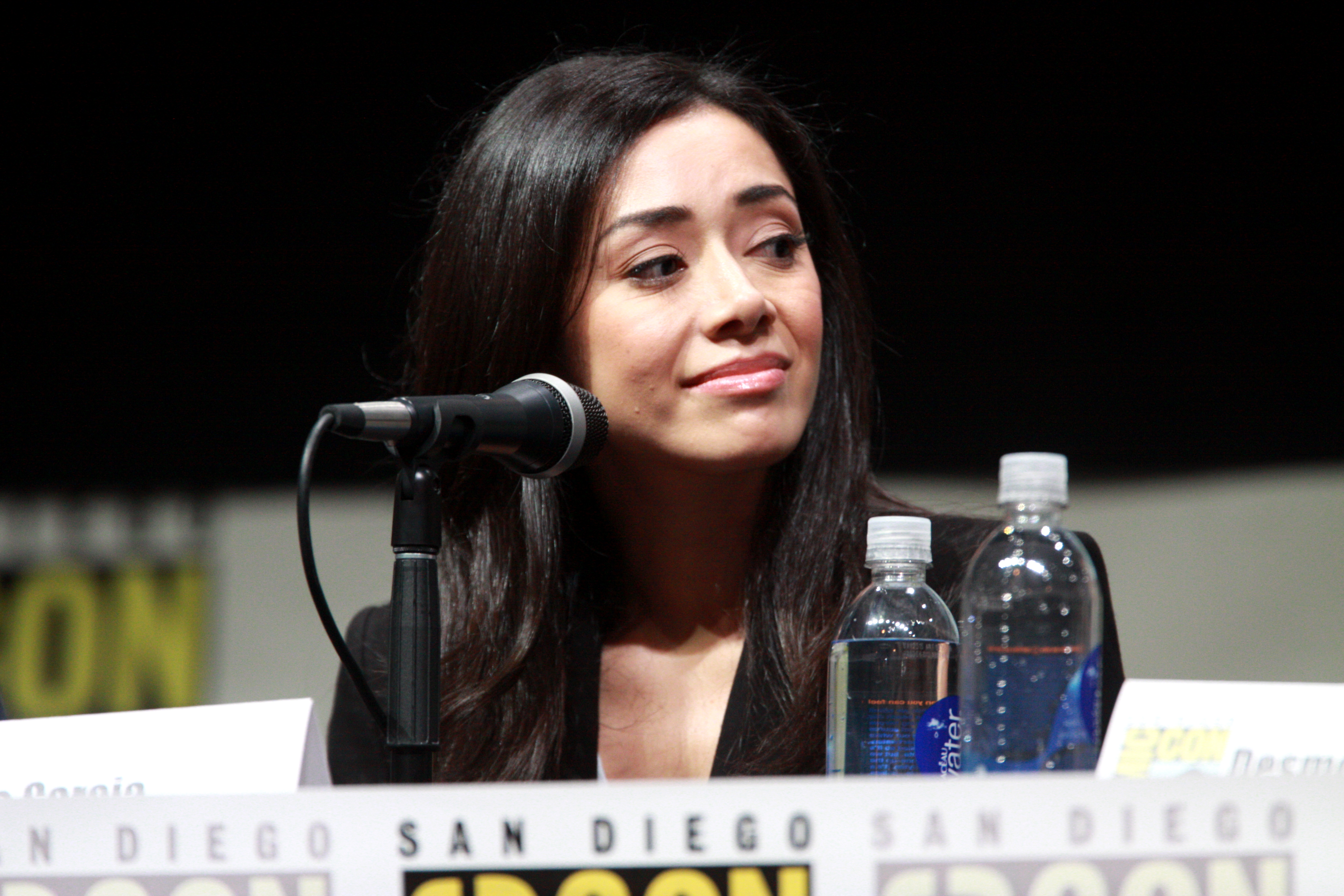 Aimee Garcia speaking at the 2013 San Diego Comic Con International, for "Dexter", at the San Diego Convention Center in San Diego, California.